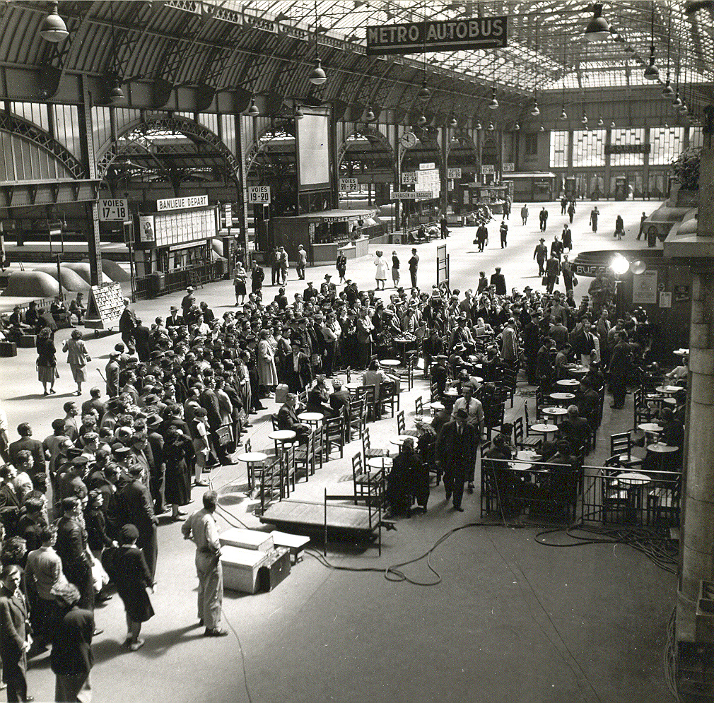 Production of 'Quai de Grenelle' in the Gare de l'Est in Paris.